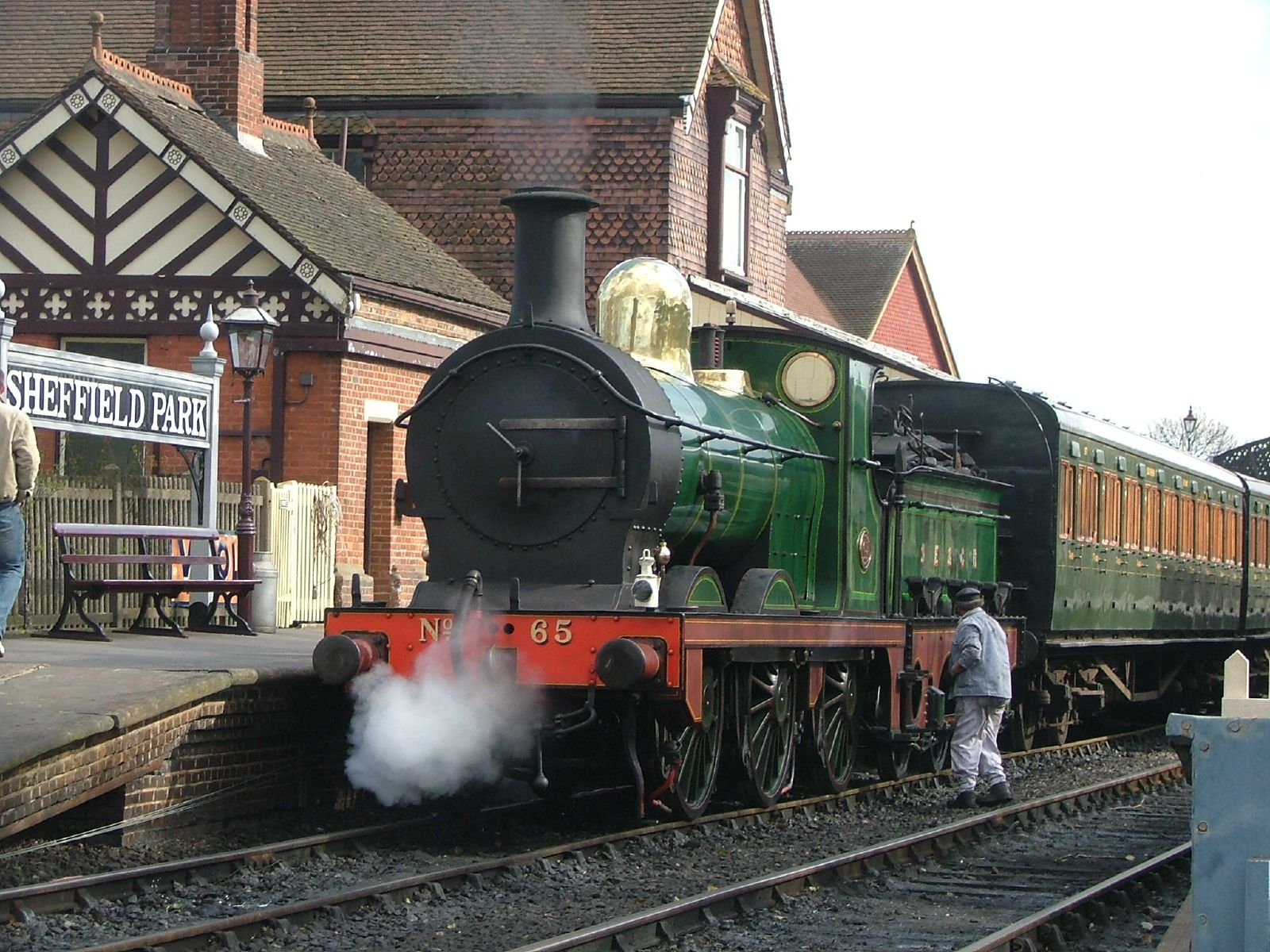 A lot of photos of this one Im afraid. Today was a "Two train day" The O2s have allways been a favourite of mine.O2 class no 65